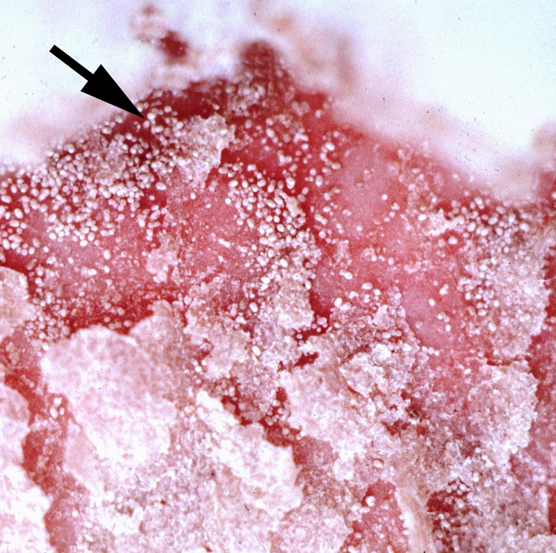 Photograph of parasitic mite infestation of sheep.